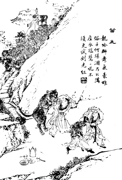 19th-century illustration of a scene from the short story "Mr. Miao" collected in Strange Tales from a Chinese Studio (1740).